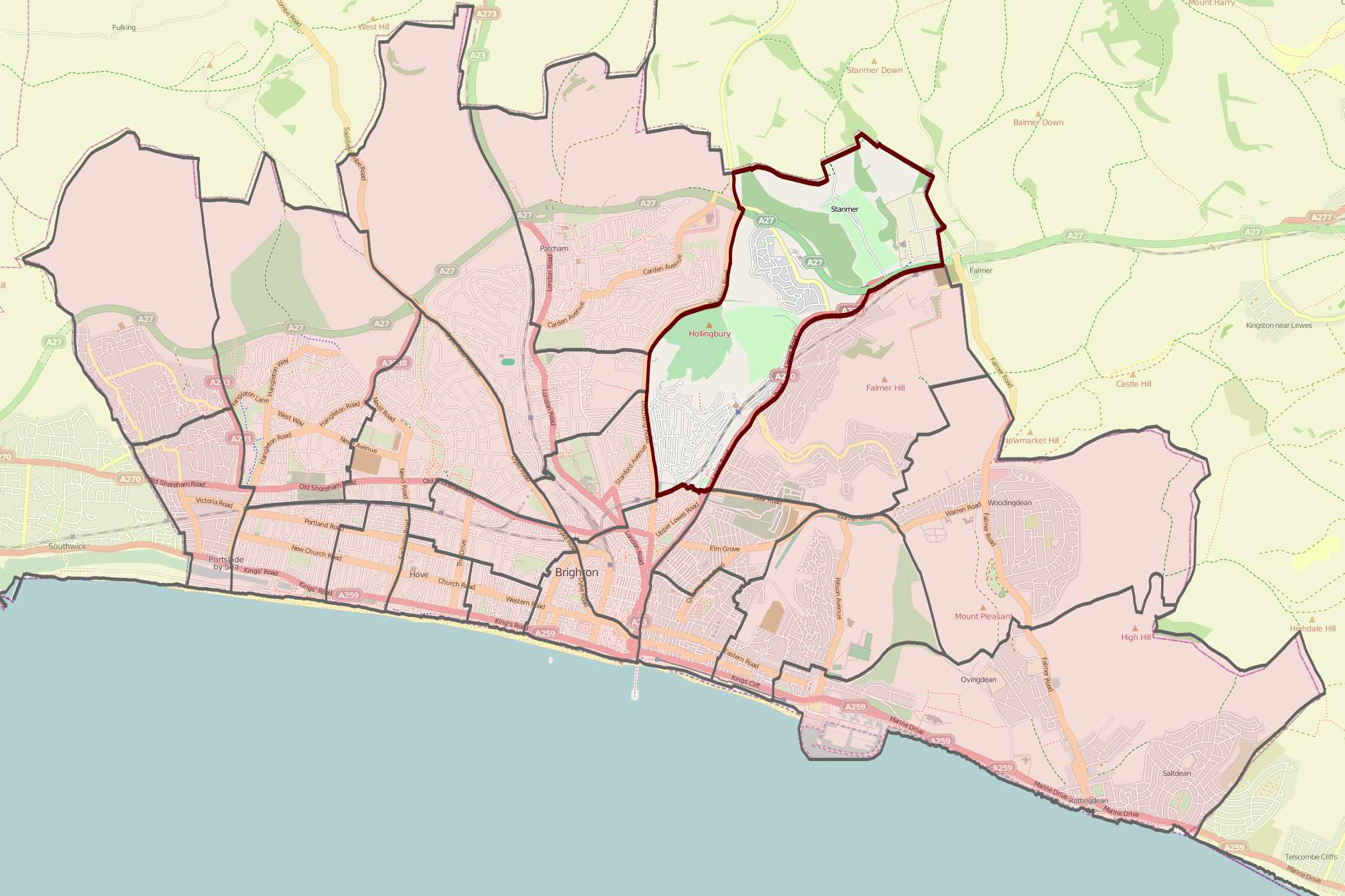 Map of Brighton and Hove wards with one ward highlighted